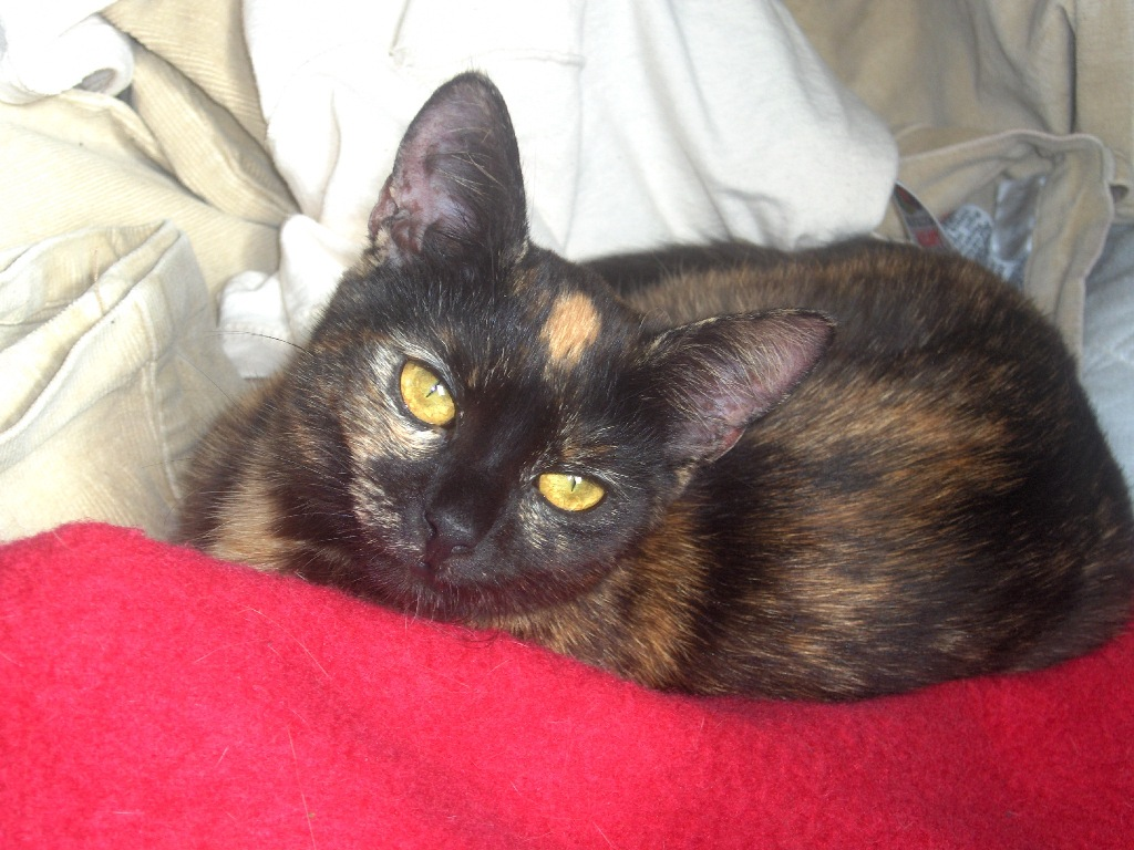 Black tortoiseshell cat "liliana"